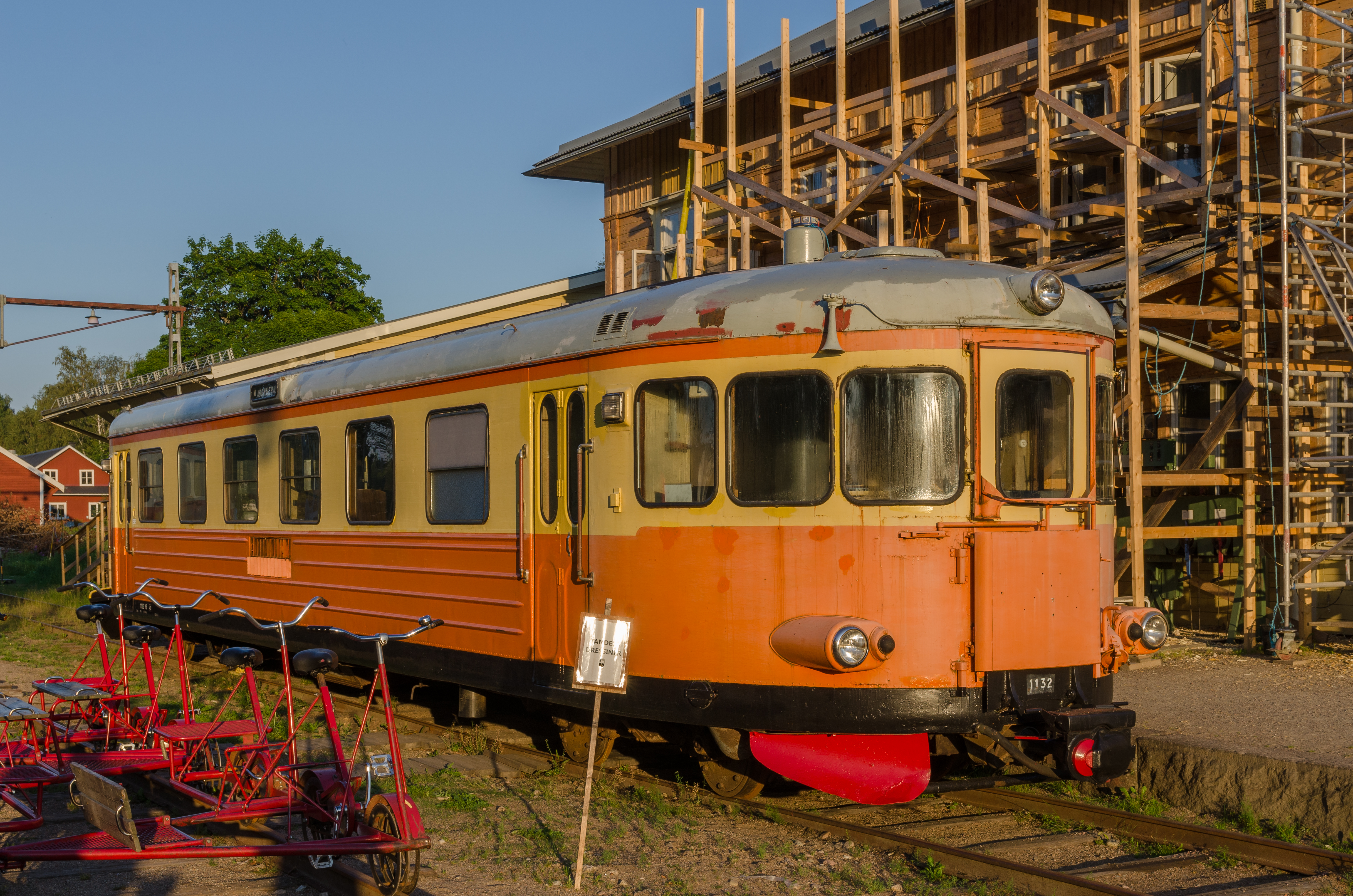 Y8 diesel railcar at Delsbo station, Dellenbanan railway. The railway was closed 1986, but the railcar is used for museum traffic in the summer. In the foreground, some rail bikes for rent.